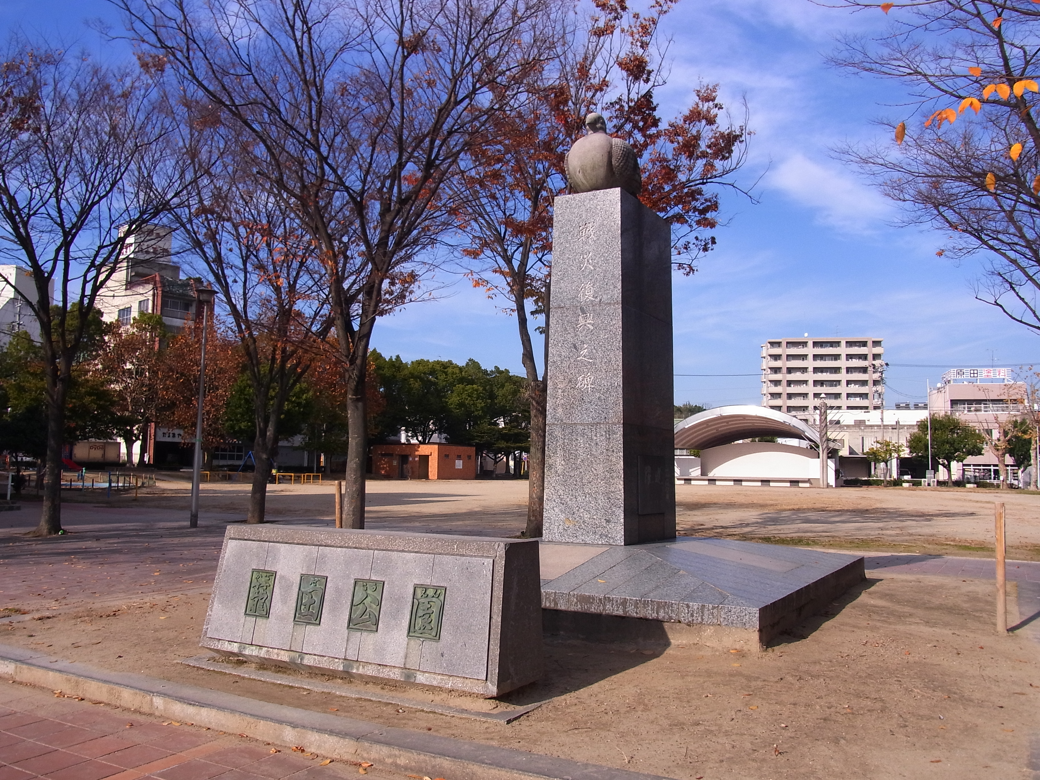 Kagoda Park in Okazaki, Aichi.